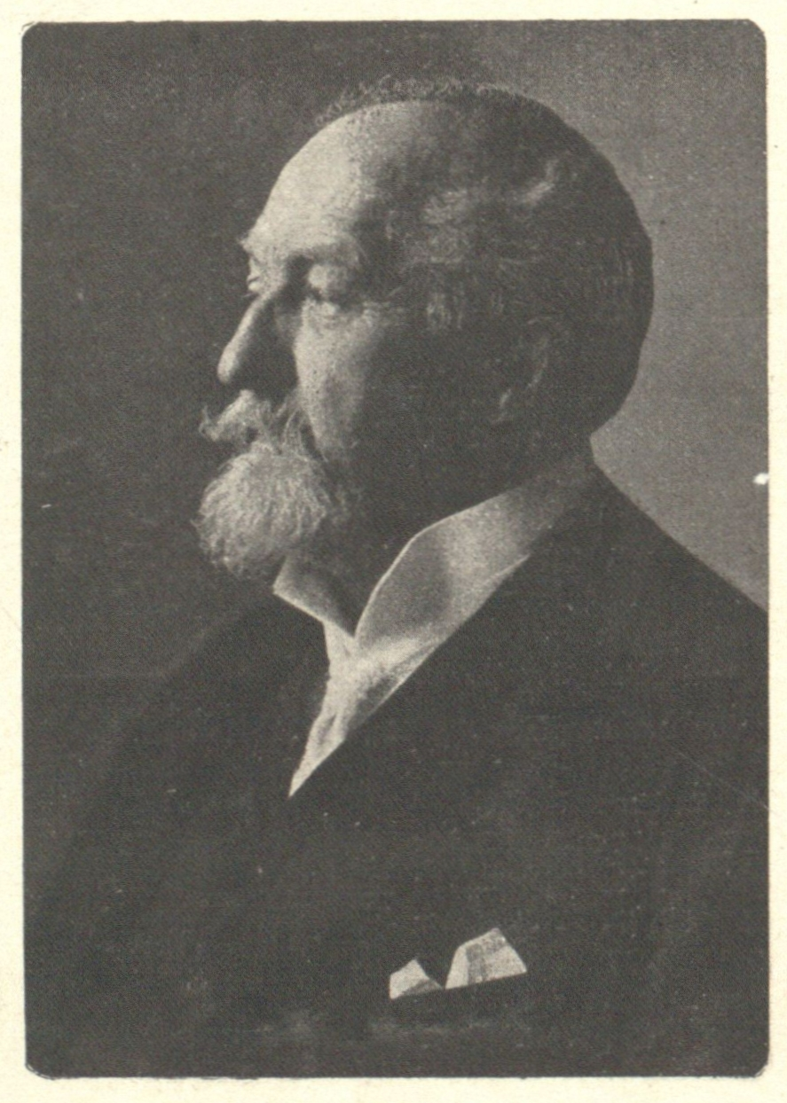 Otto Wagner